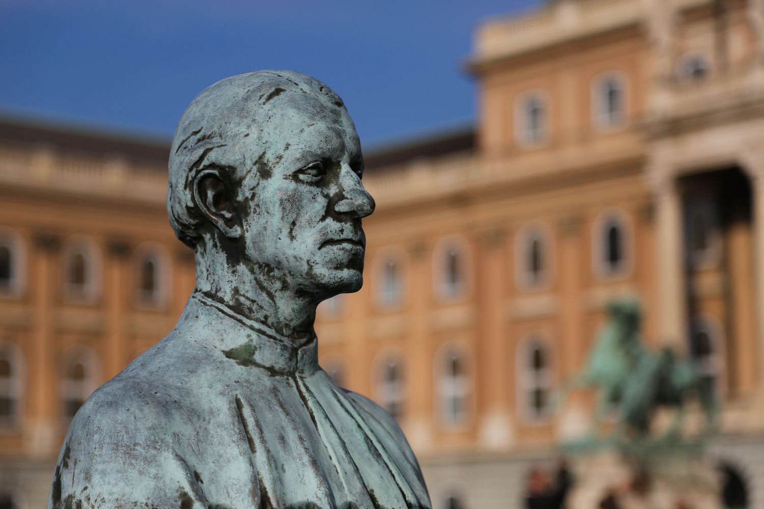 Statue of Bonfinivs in Budapest